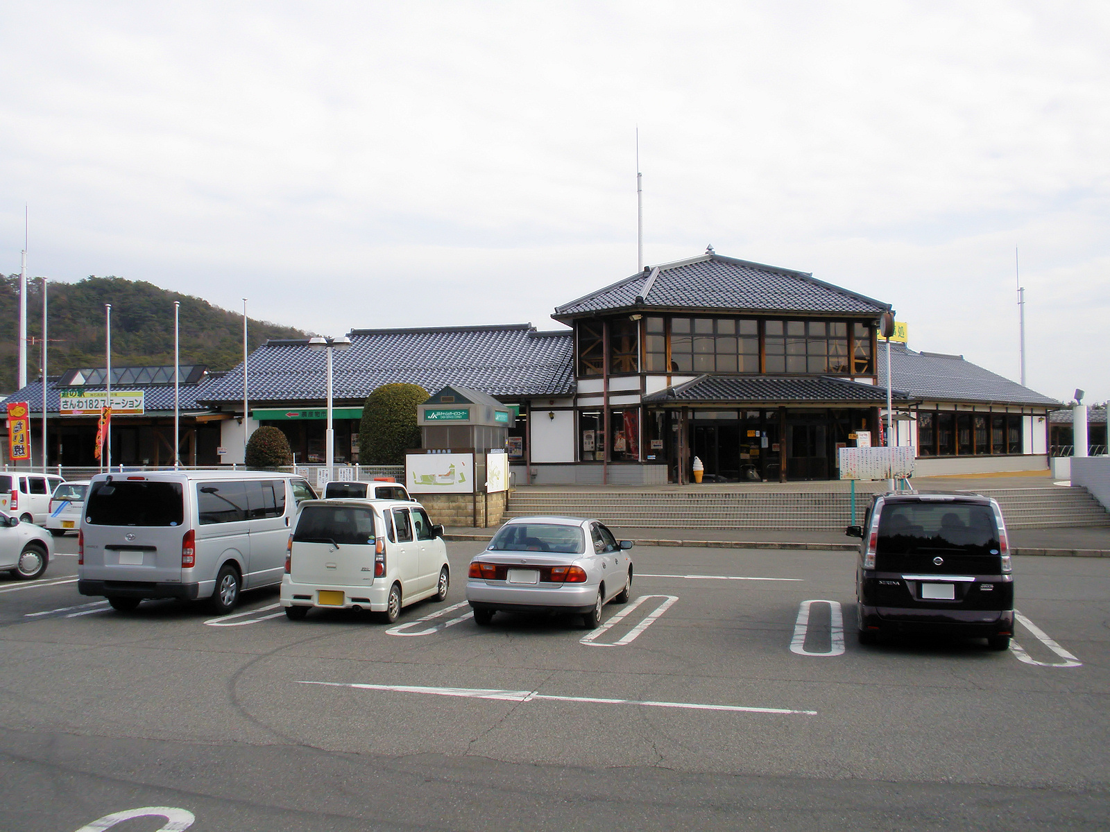 Roadside Station Sanwa 182 Station, Jinsekikōgen, Hirosima.